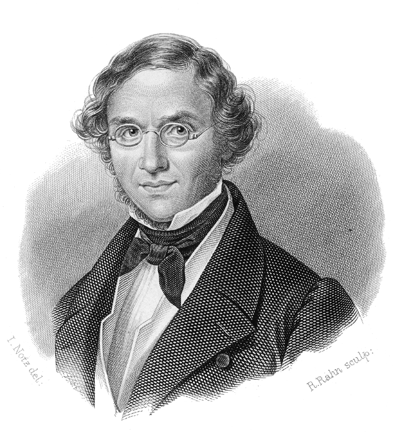 Frederic Dubois de Montpereux